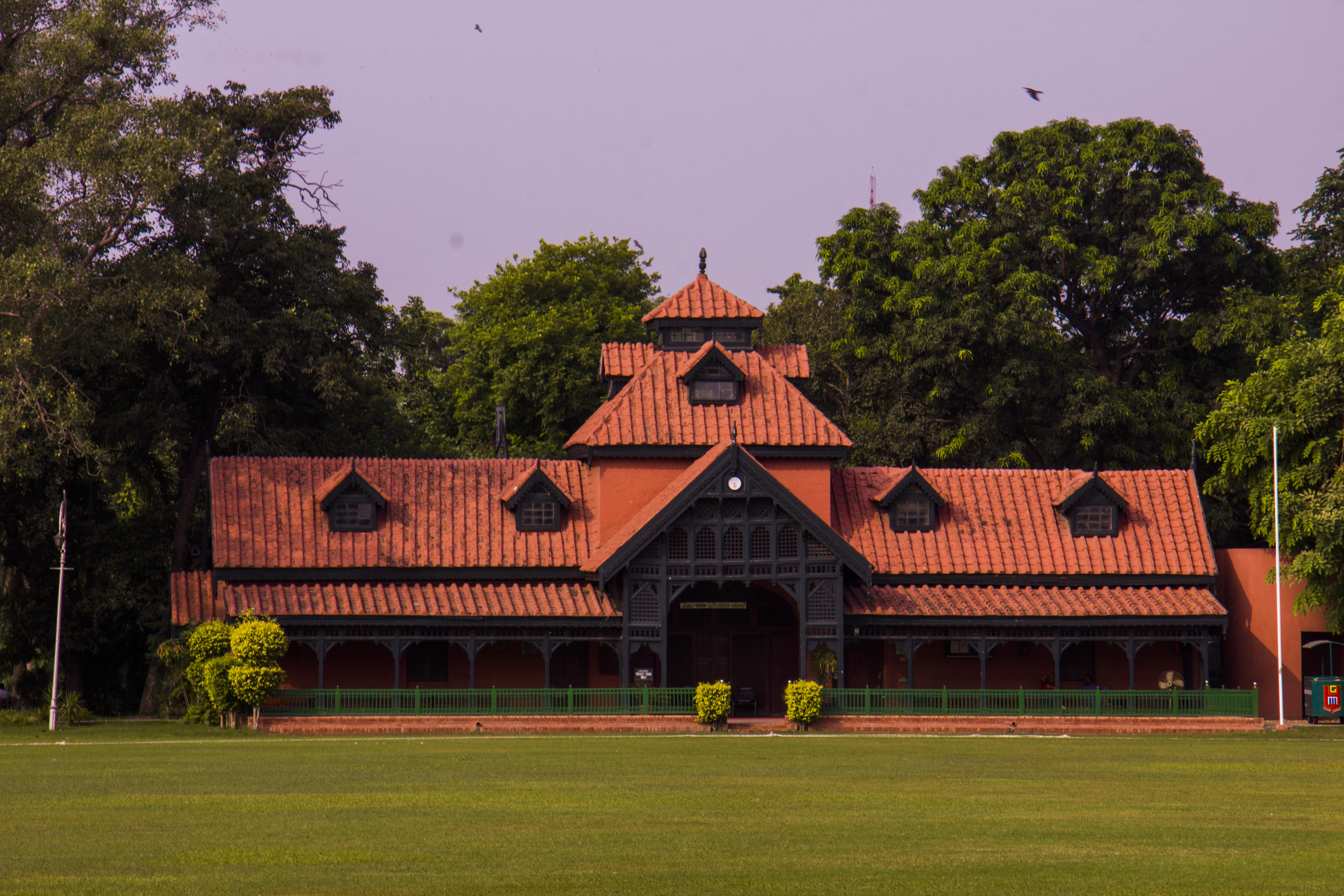 Lahore Gymkhana Club This is a photo of a monument in Pakistan identified as the PB-P-87